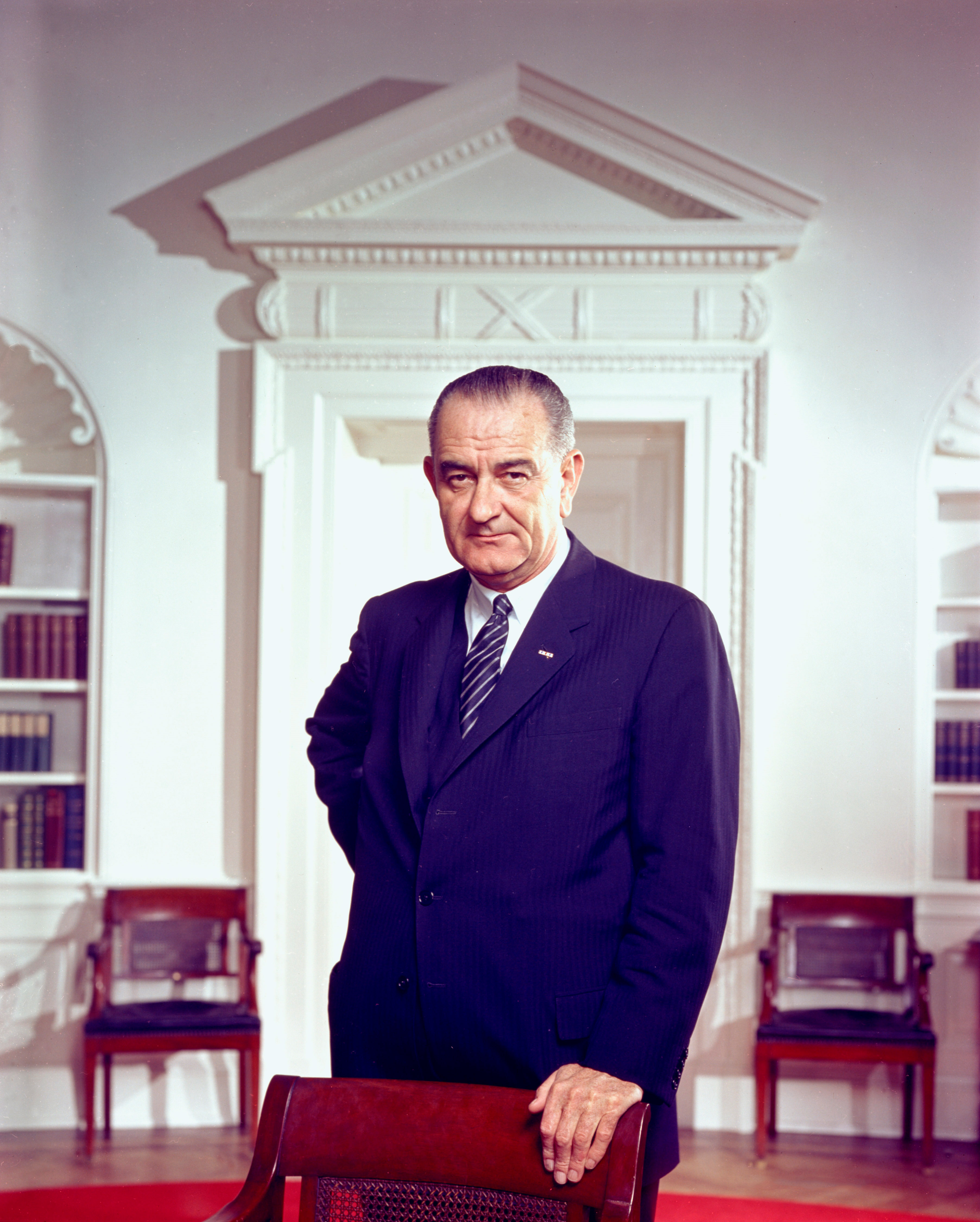 Photo portrait of President Lyndon B. Johnson in the Oval Office, leaning on a chair